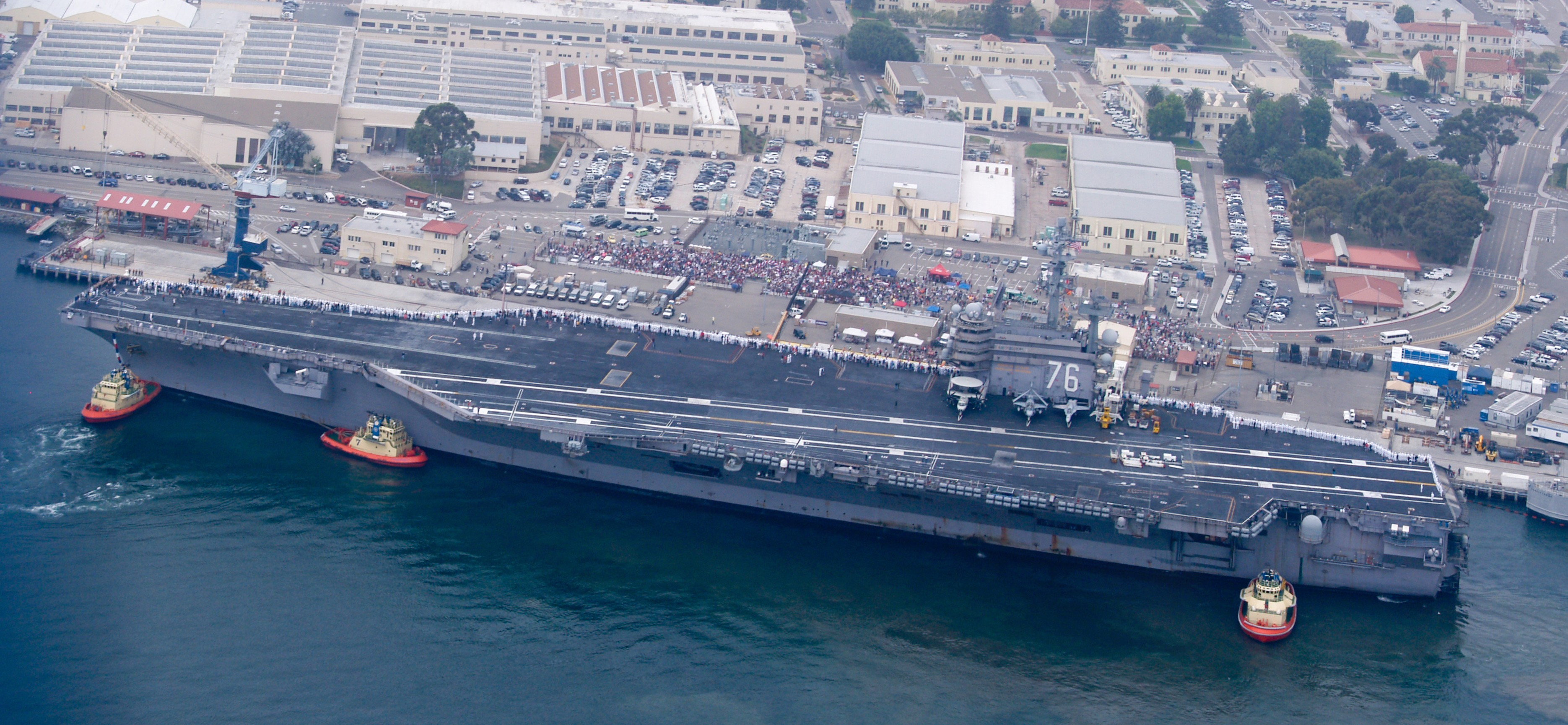 Photo of the USS Ronald Reagan returning from a deployment to San Diego Bay taken from a helicopter. Please acknowledge "Phil Konstantin" as the creator of this photograph.